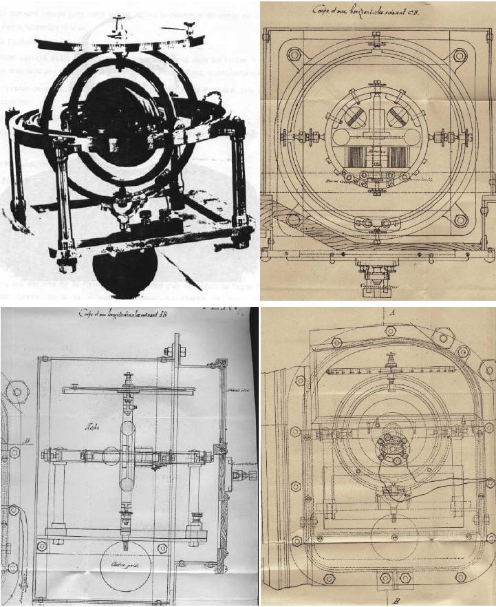 In 1889, Arthur Krebs added an electric motor of his own to the Dumoulin (builder of the Foucault gyroscope) marine gyroscope, in order to give a gyrocompass to the french experimental submarine Gymnote. Giving the Gymnote submarine the ability to keep a streight line under water during several hours, it allowed her to force a naval block in 1890.